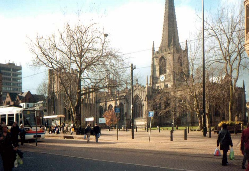 Sheffield Cathedral, Sheffield, England. © Jeremy Atherton, 2001.